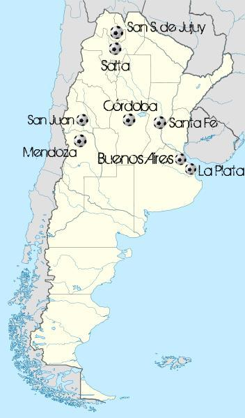 venues for the Copa America 2011